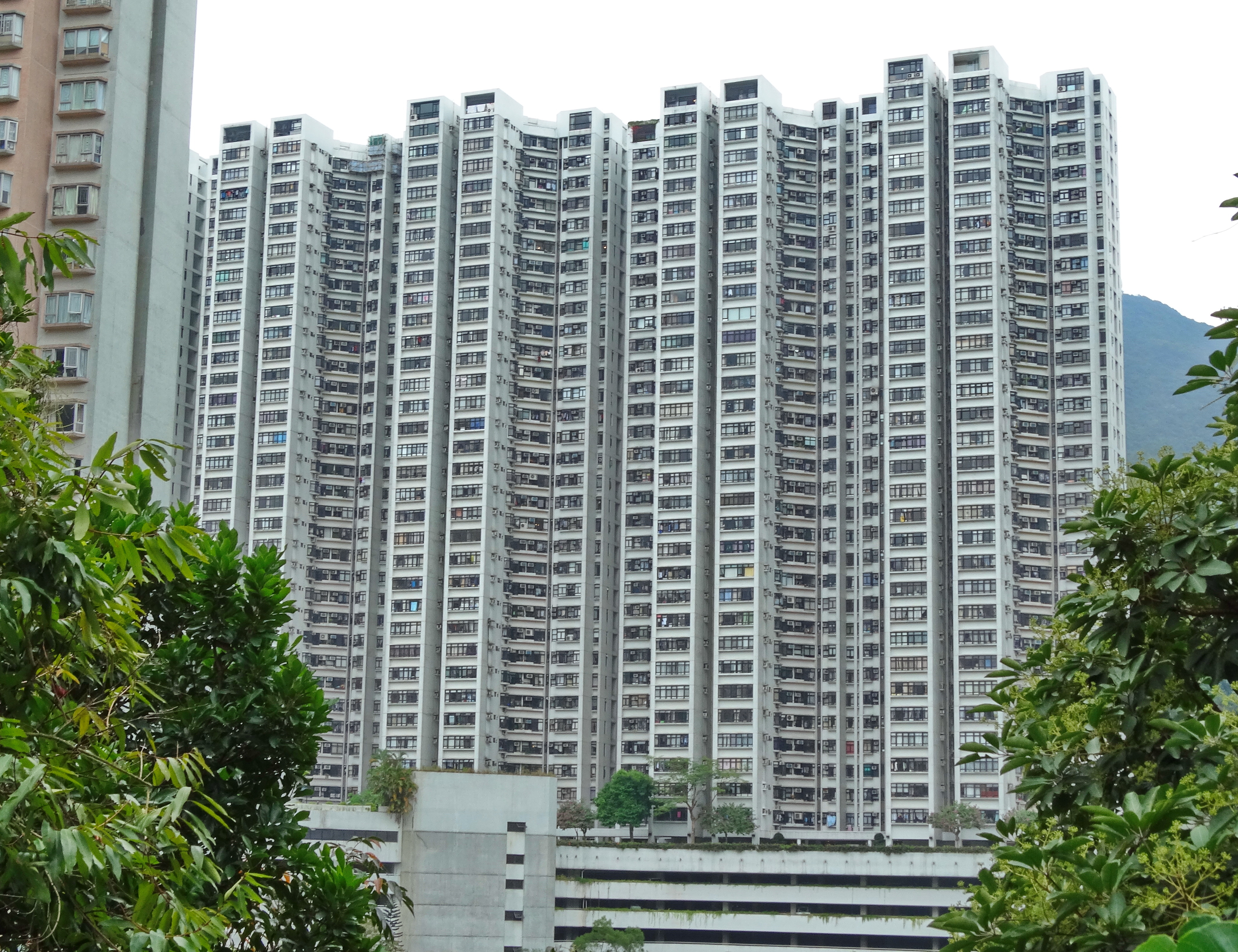 Kornhill, Quarry Bay, Hong Kong.